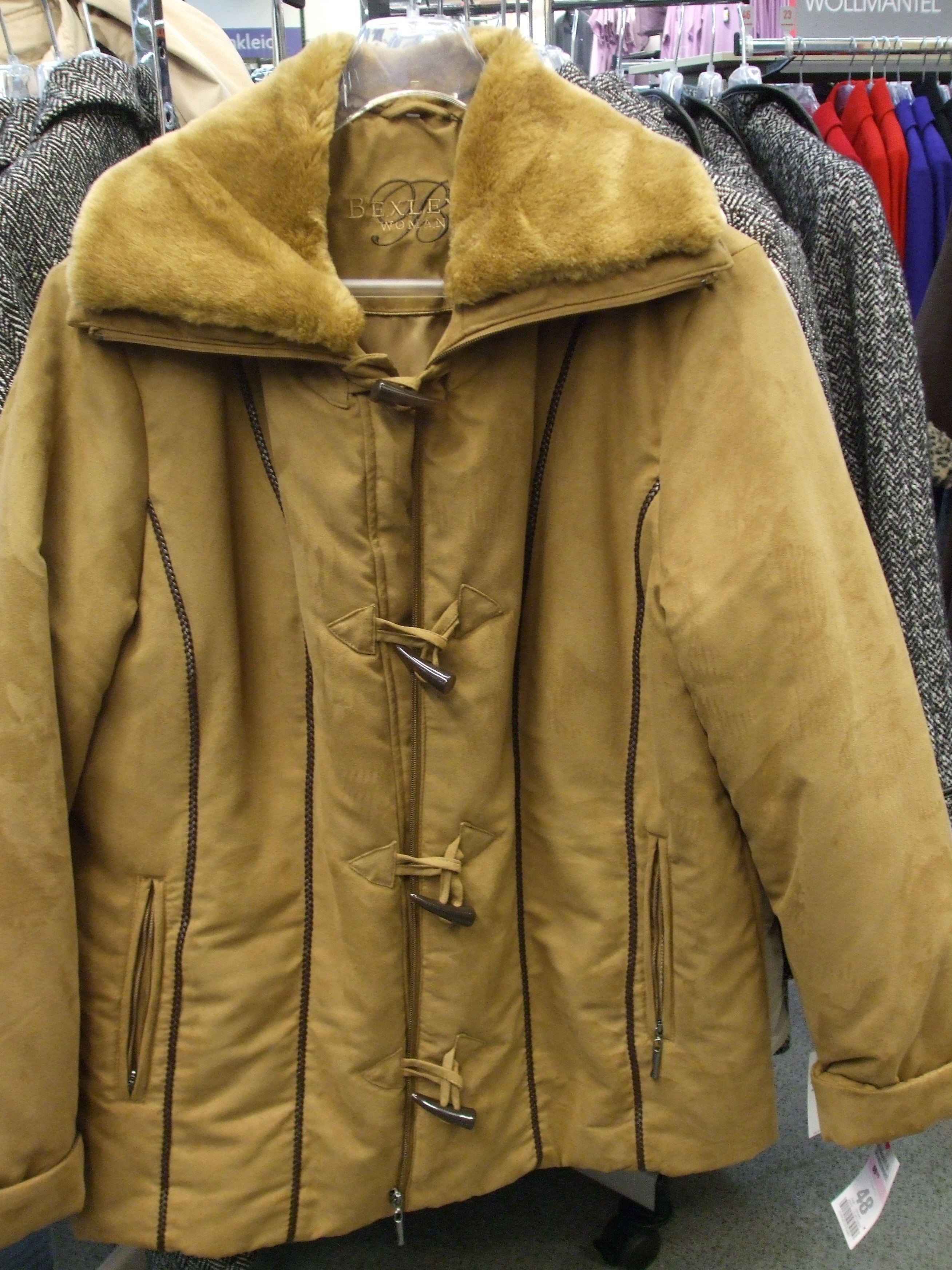 Button